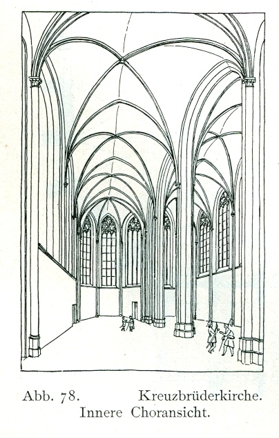 Kreuzbrüderkirche_in Düsseldorf, Innere_Choransicht.jpg